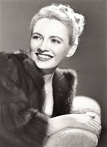 Kitty Kelly, foto pubblicitaria